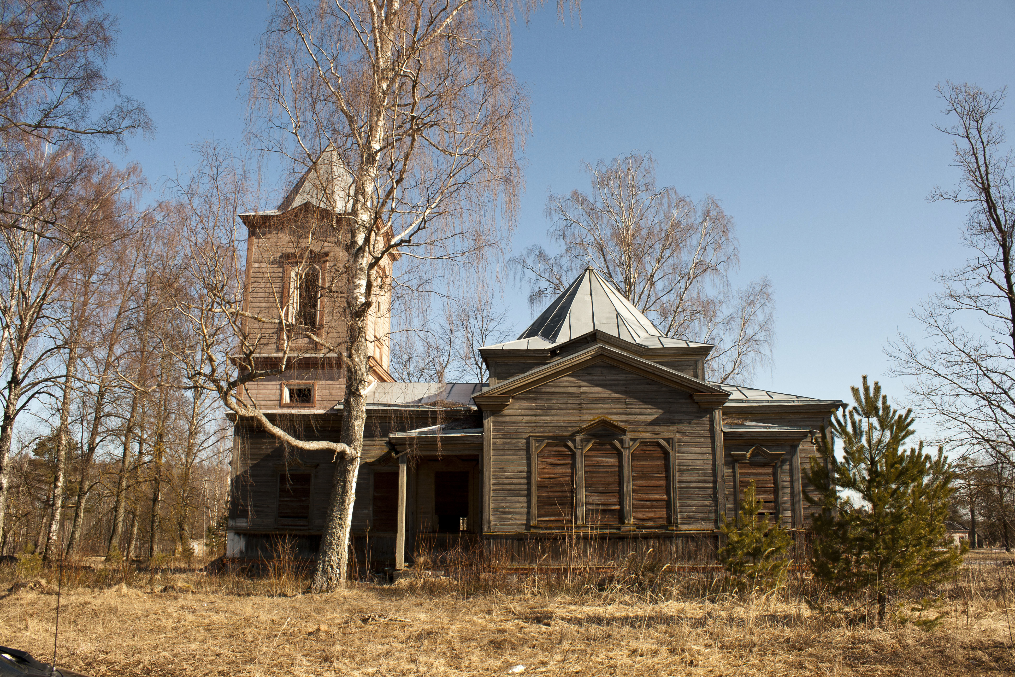 Palsmane Orthodox ChurchLatviešu: Palsmanes pareizticīgo baznīca